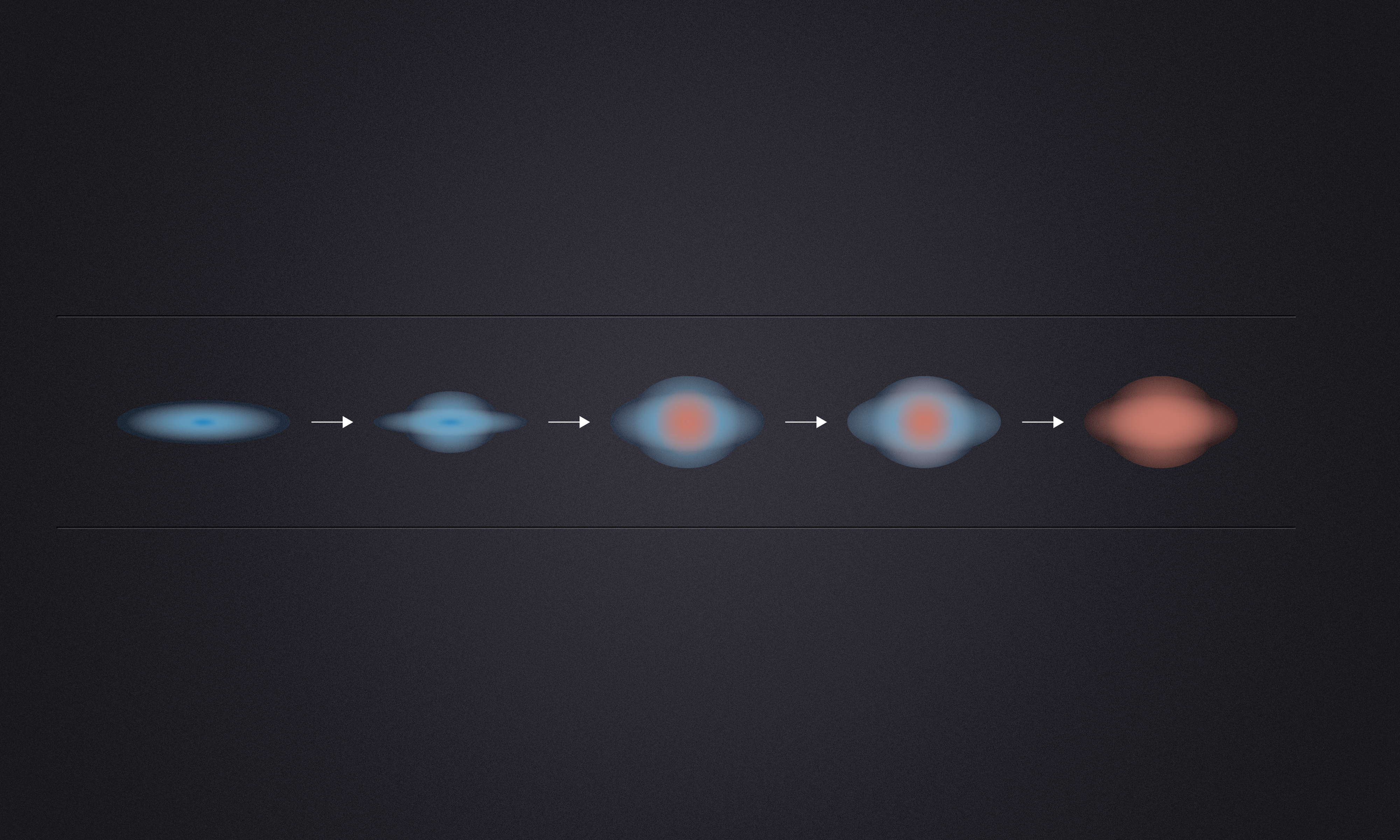 Star formation in what are now "dead" galaxies sputtered out billions of years ago. ESO’s Very Large Telescope and the NASA/ESA Hubble Space Telescope have revealed that three billion years after the Big Bang, these galaxies still made stars on their outskirts, but no longer in their interiors. The quenching of star formation seems to have started in the cores of the galaxies and then spread to the outer parts. This diagram illustrates this process. Galaxies in the early Universe appear at the left. The blue regions are where star formation is in progress and the red regions are the "dead" regions where only older redder stars remain and there are no more young blue stars being formed. The resulting giant spheroidal galaxies in the modern Universe appear on the right.